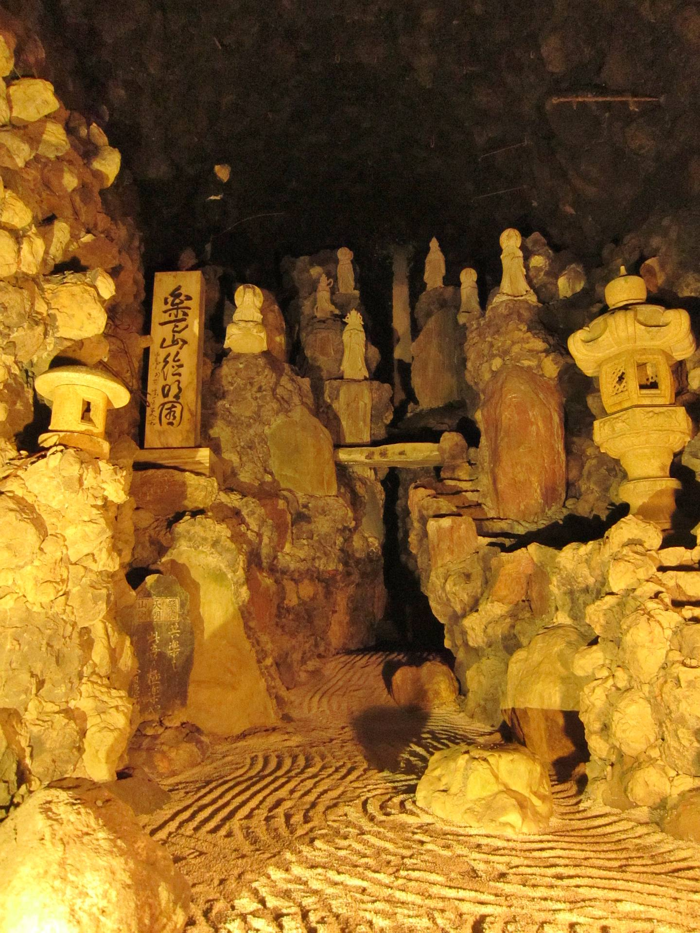 Doukutsu Kannon (Ishihara-machi, Takasaki, Gunma).